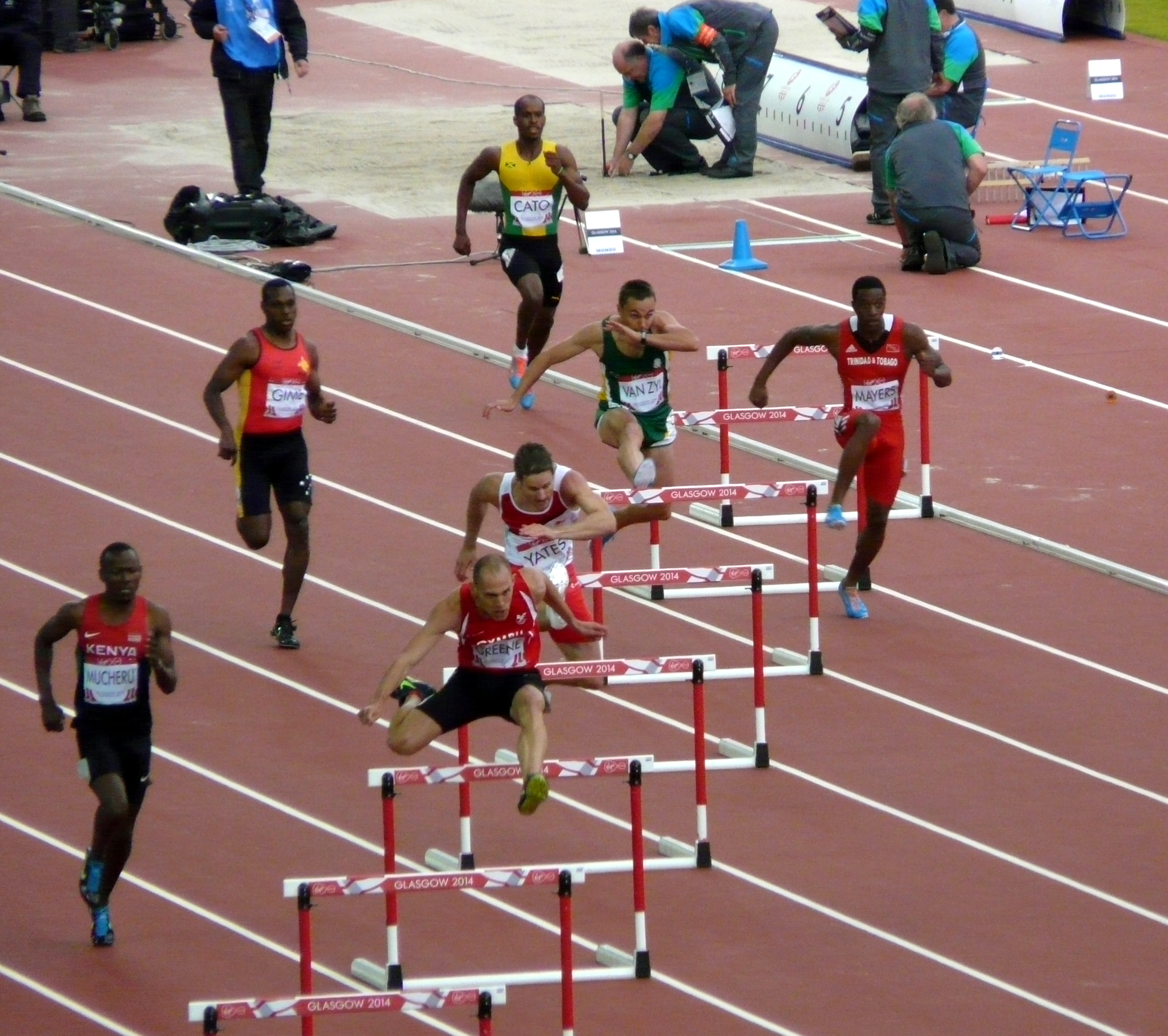 Hampden Park Glasgow Commonwealth Games Day 7 Athletics Morning Session Wednesday 30th July 2014. Men's 400m Hurdles, Heat 3, Boniface Mucheru (Ken), Richard Yates (Eng), Louis Van Zyl (Rsa), Dai Greene (Wal), Emanuel Mayers (Tto), Wala Gime (Png)